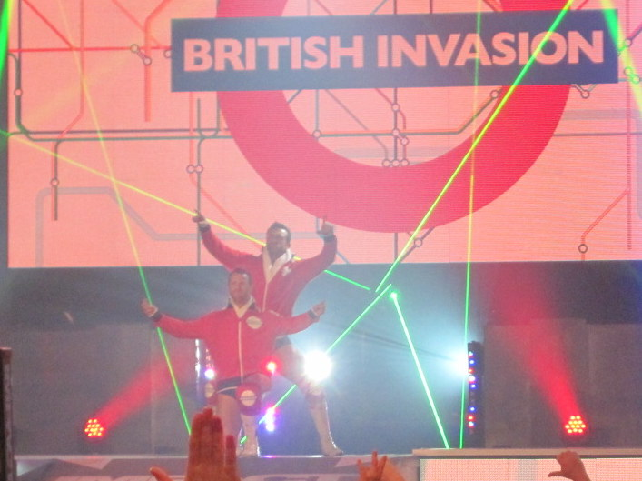 Sunday, June 12, 2011. Universal Orlando